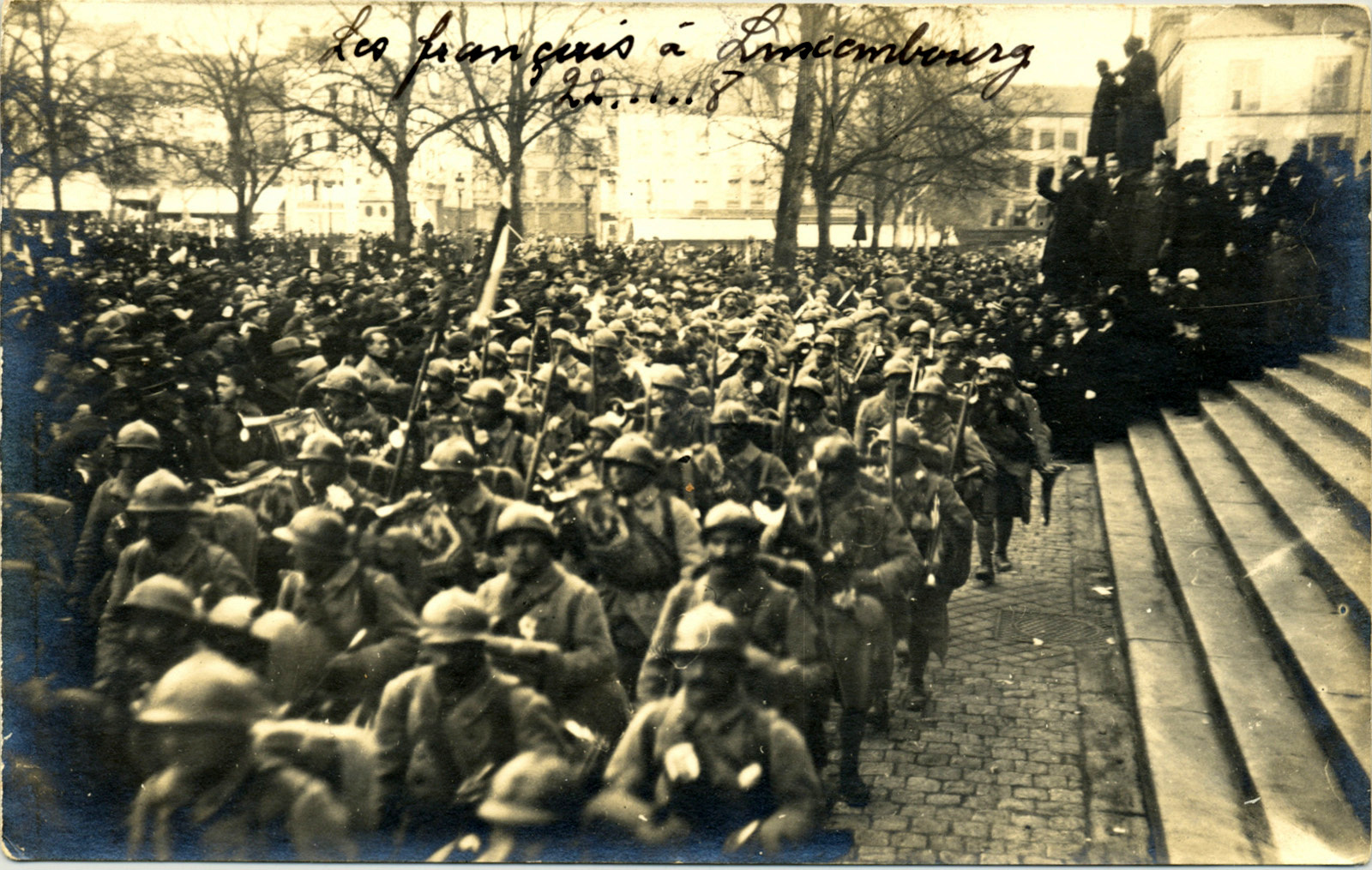 22 november 1918: Military parade by french troops in Luxembourg City .